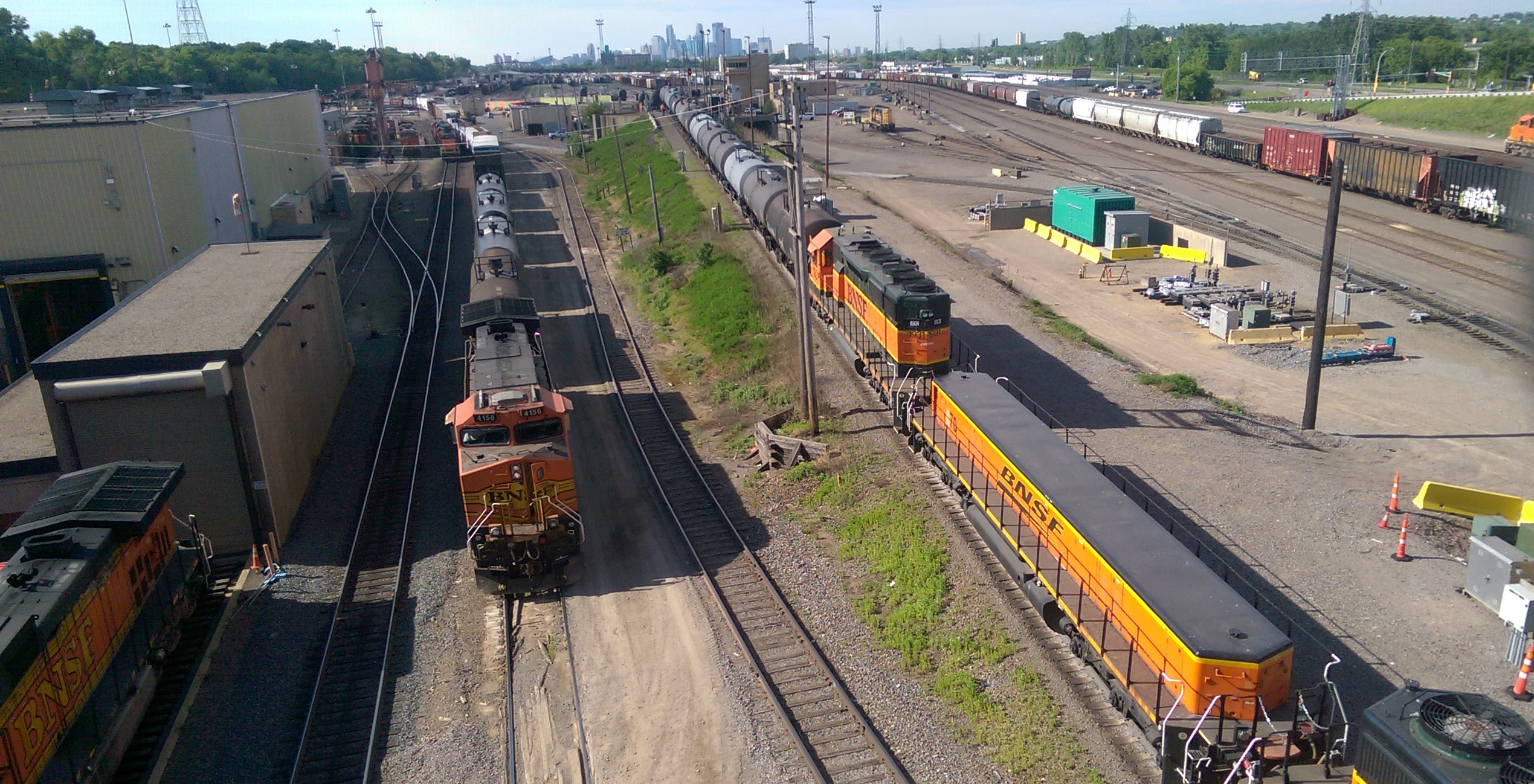 Hump at BNSF Northtown Yard looking South, in Fridley, Minnesota, USA.